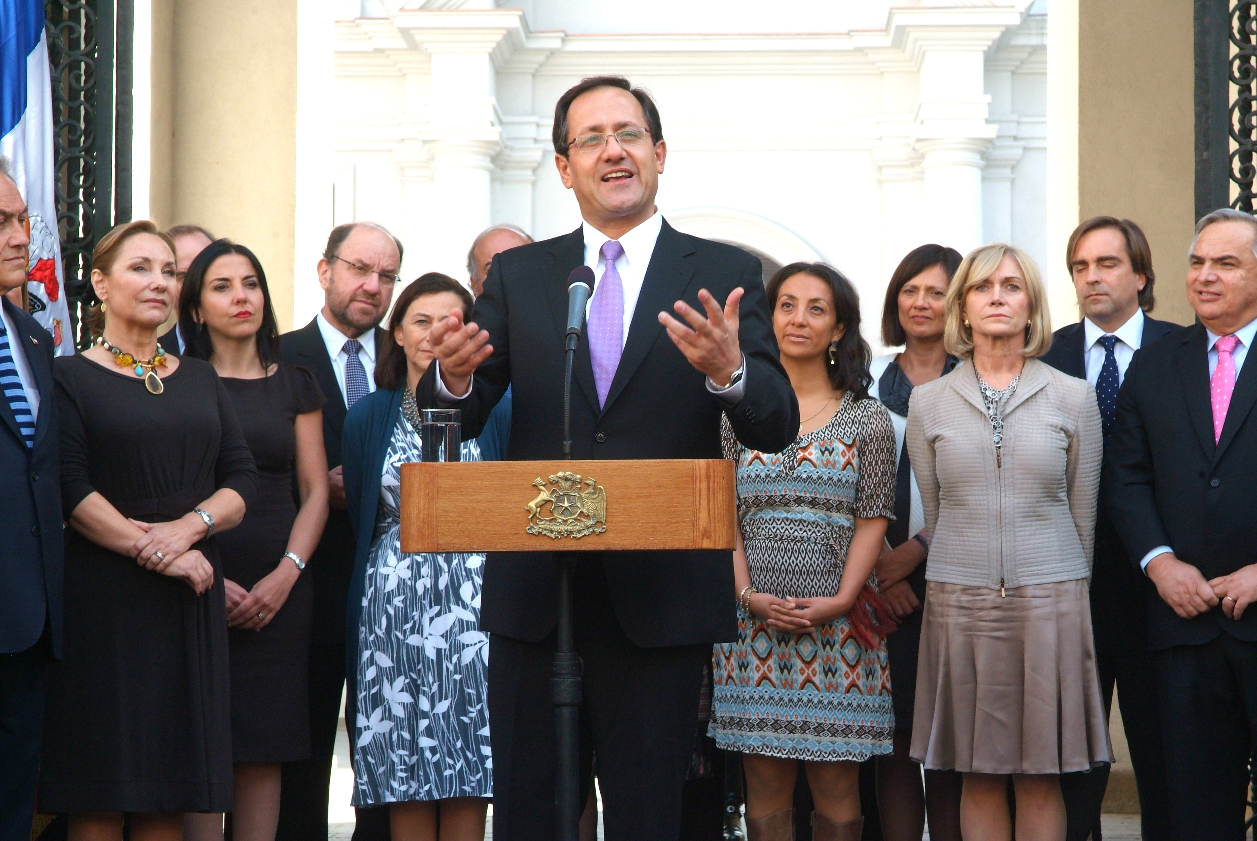 Recibe a Harald Beyer